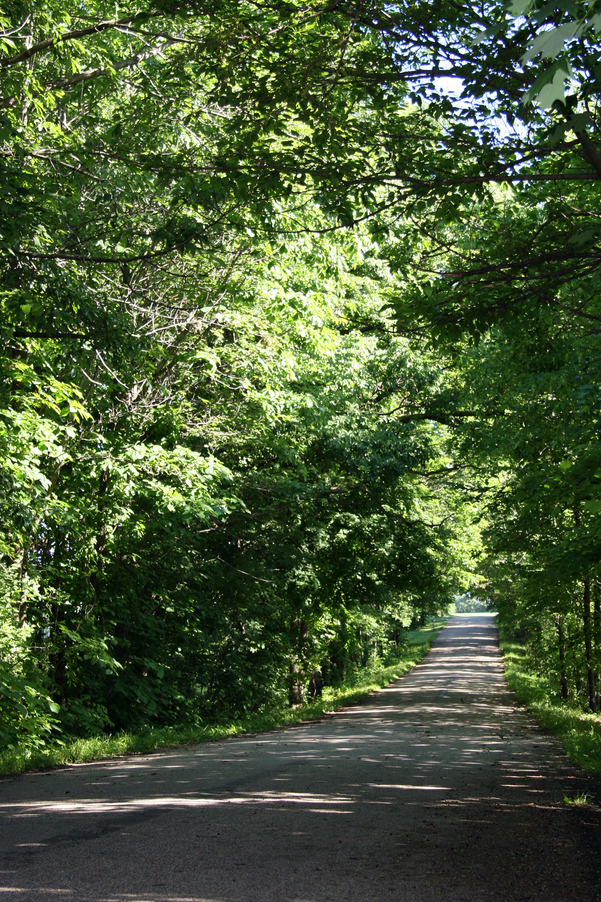 County Road 850 East just north of the unincorporated community of Roberts in Fountain County, Indiana.